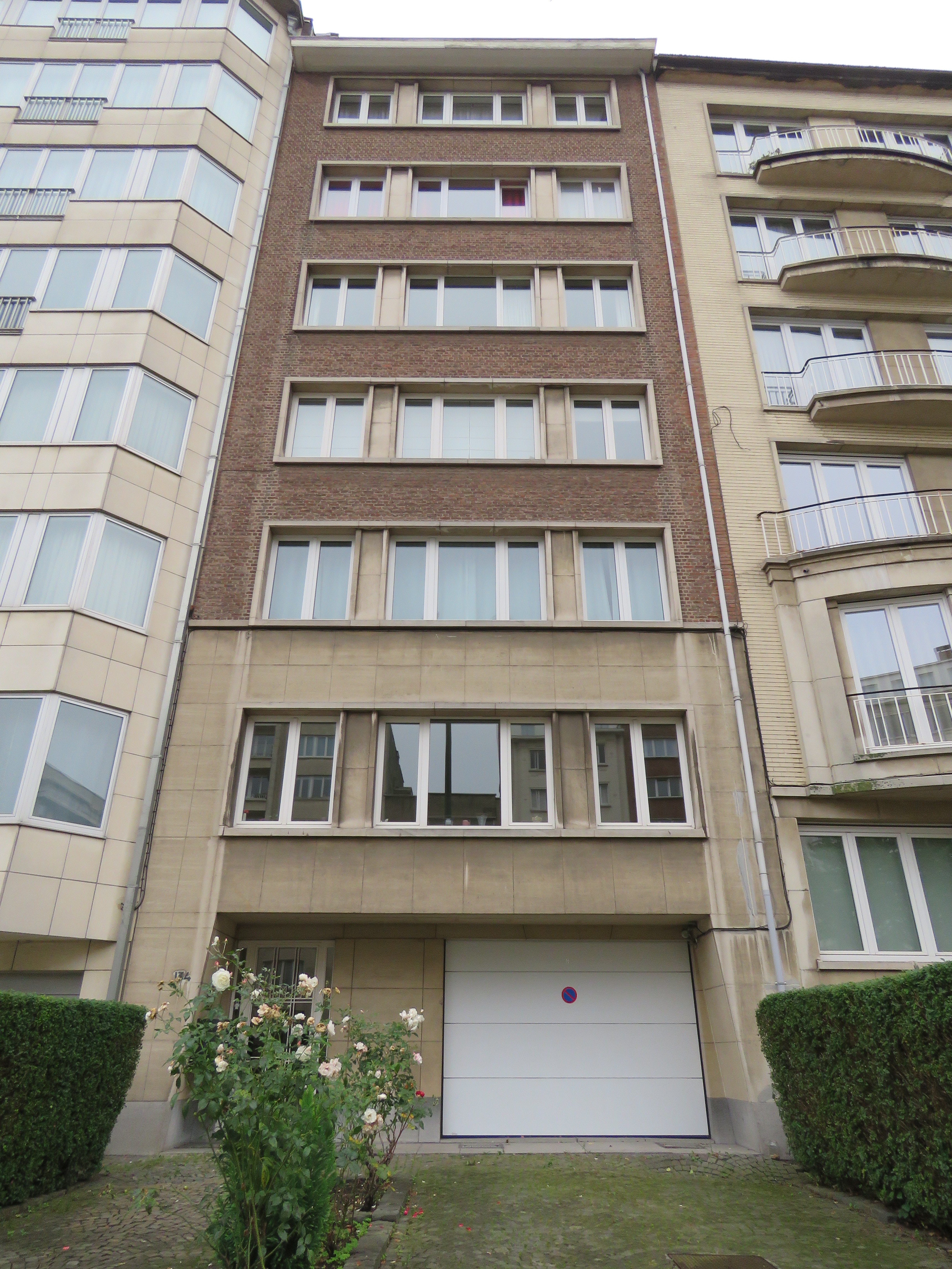 Leopold Unger’s home – Brussel, Avenue de Broqueville 134 / Leopold Unger (1922-2011), Polish journalist and essayist, political emigrant. He lived in Poland, and since 1969 into 2011 in Belgium.